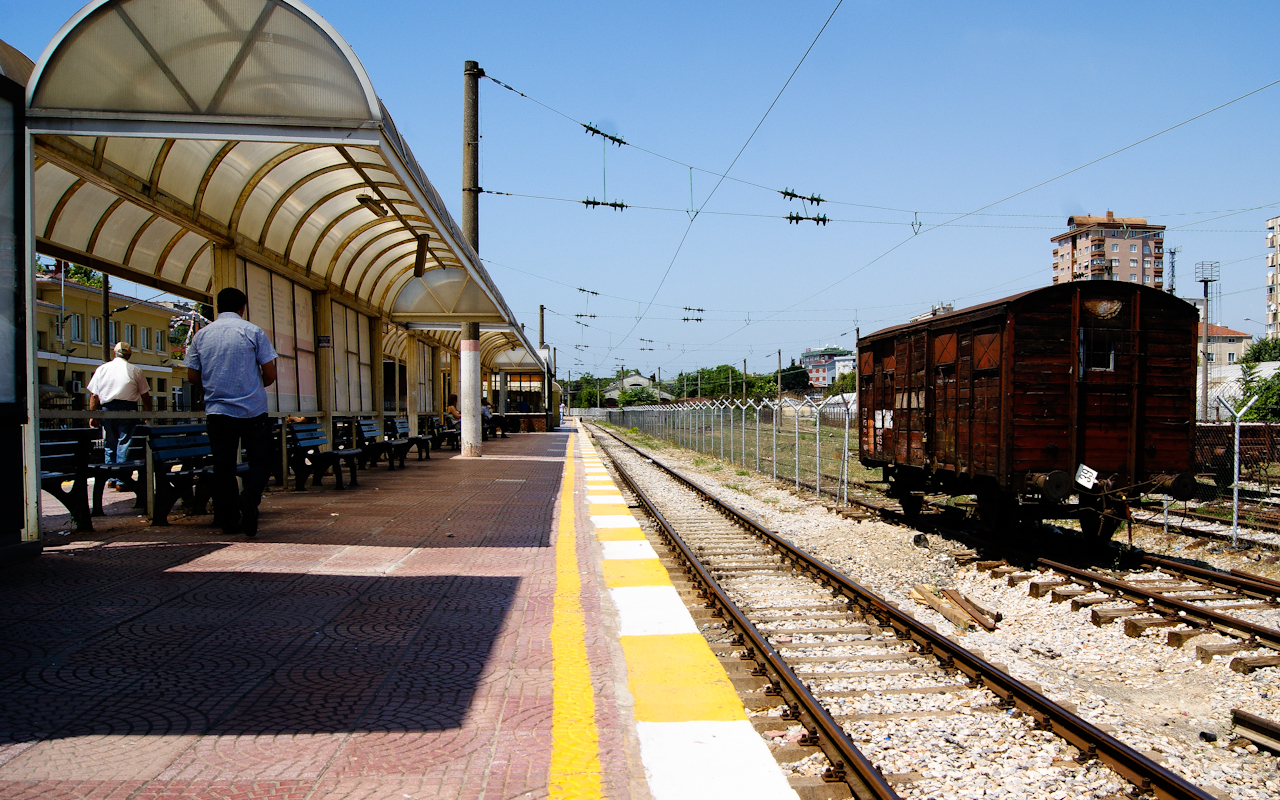 Pendik, Istanbul Station